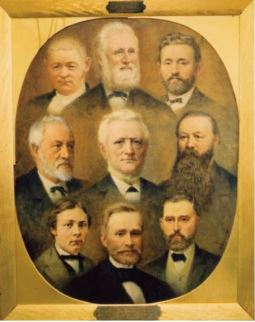 Group portrait by Knut Bergslien of the nine shareholders of Halla aktiebolag, a norwegian-finnish forestry company 1875-1916. All of the nine were land owners in Elverum. From top left: Hans Peter Rogstad, Helge Væringsaasen, Ole Rogstad, Helge Berger, Gunder Sætersmoen, Ole Møystad, Per Rogstad, Carsten Sæthren, Henrik Opdahl